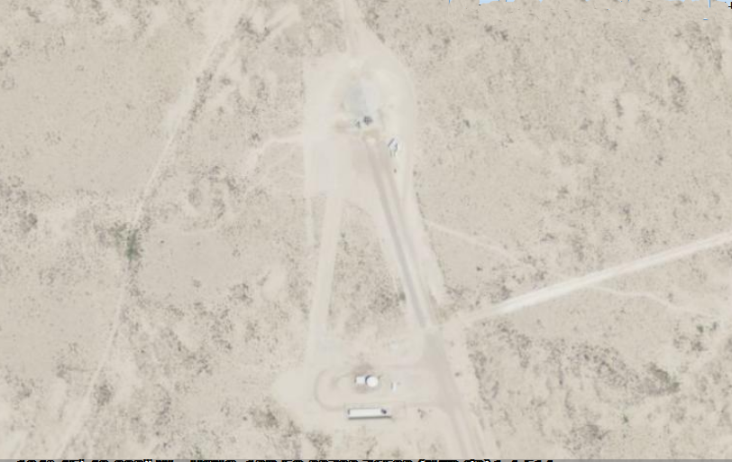 View of the Corn Ranch spaceport, from the National Map.